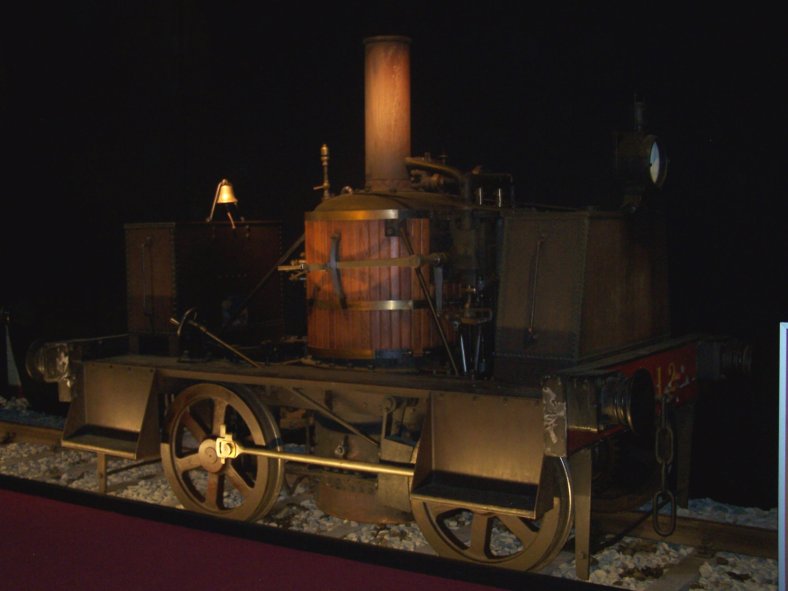 Historic danish steam locomotive Gamle Ole from 1869 in the Transport Museum in Nuremberg in the exhibition "Adler, Rocket and Co."